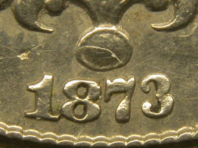 Detail from 1873 Shield nickel, "Open 3" variety